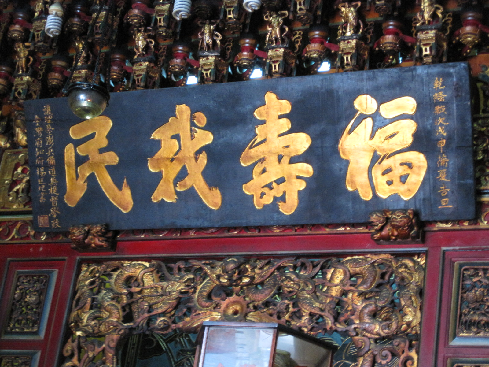 A historical plaque in the temple of Shennong in Tainan, Taiwan.